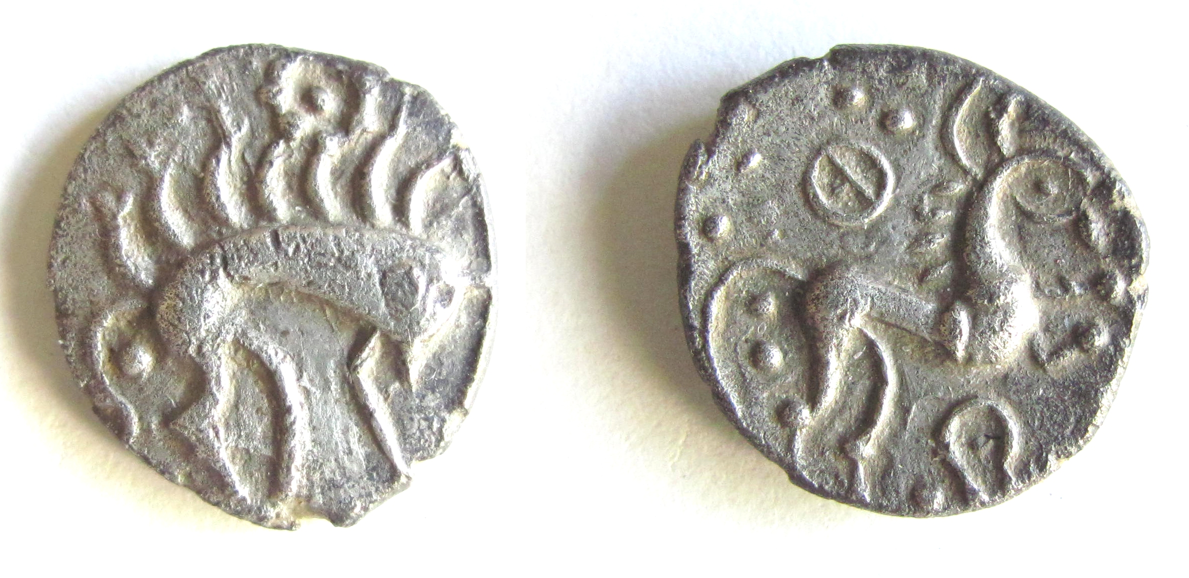 Silver unit of the Iceni, Boar-Horse type, diameter 13mm, c.50-20BC